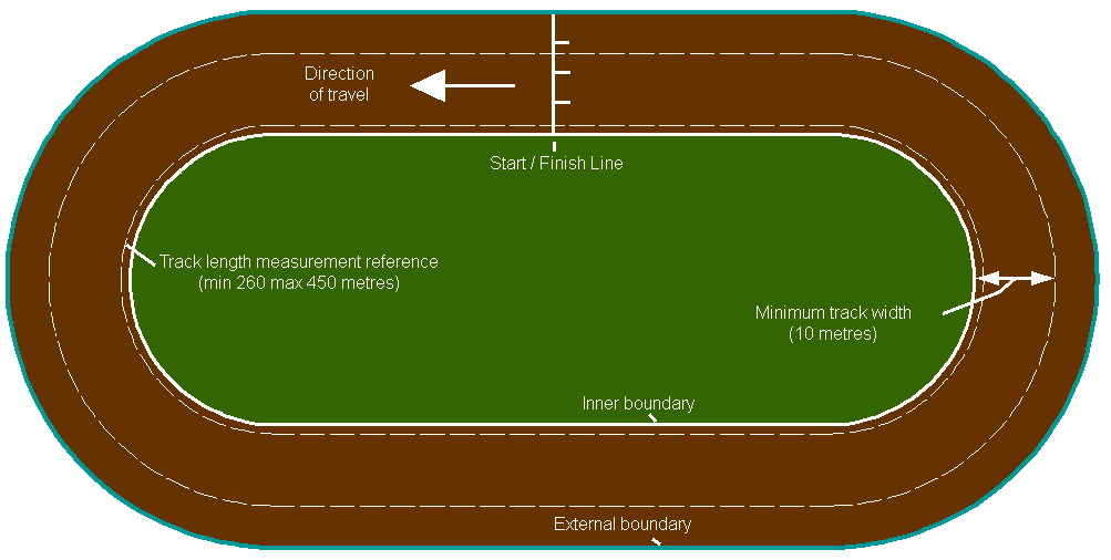 A generic representation of a Speedway circuit, labelled.